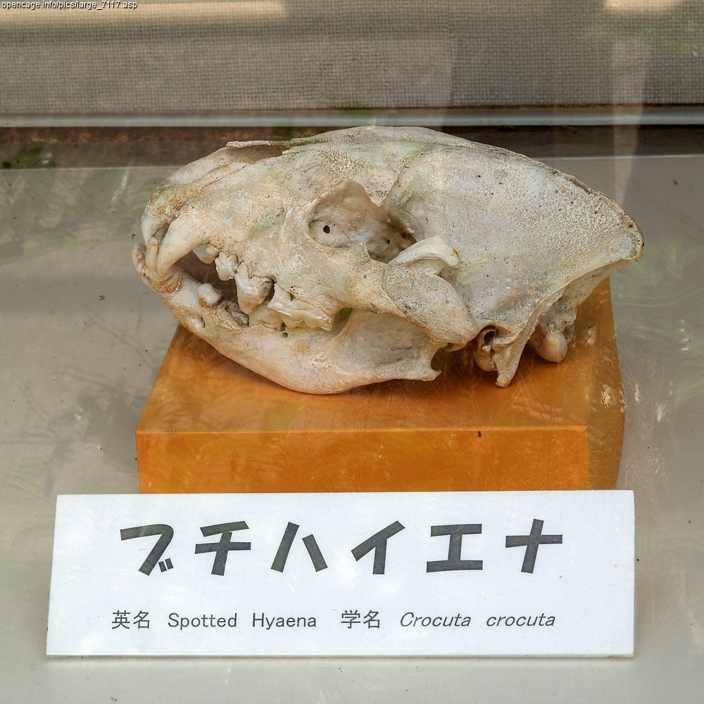 ブチハイエナ Spotted Hyena Kingdom:Animalia Phylum:Chordata Class:Mammalia Order:Carnivora Family:Herpestidae Genus:Crocuta 動物界 脊索動物門 哺乳綱 ネコ目（食肉目） ハイエナ科 ブチハイエナ属 Species Crocuta crocuta Location: Tennouji Zoo, Osaka, Japan Other photos: NCBI Taxonomy ID:9678 Copyright: OpenCage